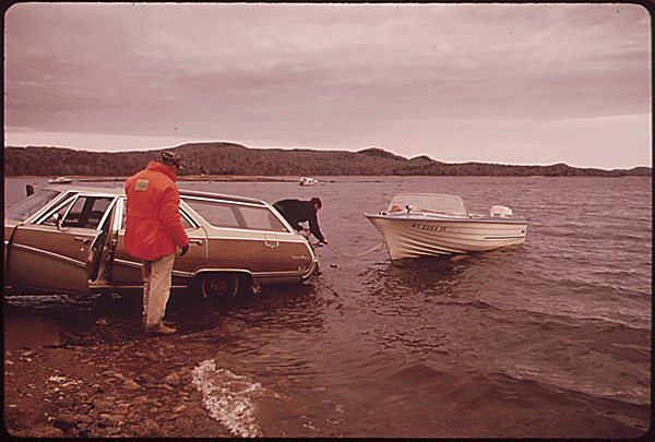 HUNTERS LOAD AN OUTBOARD MOTORBOAT BEHIND THEIR STATION WAGON AT THE STILLWATER RESERVOIR AND PUBLIC BOAT LANDING IN THE ADIRONDACK FOREST PRESERVE OF NEW YORK STATE. THE PLACE IS A NEW YORK STATE DEPARTMENT ENVIRONMENTAL CONSERVATION BOAT LAUNCHING SITE, 11/1973